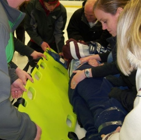 Spine board being slipped under injured player